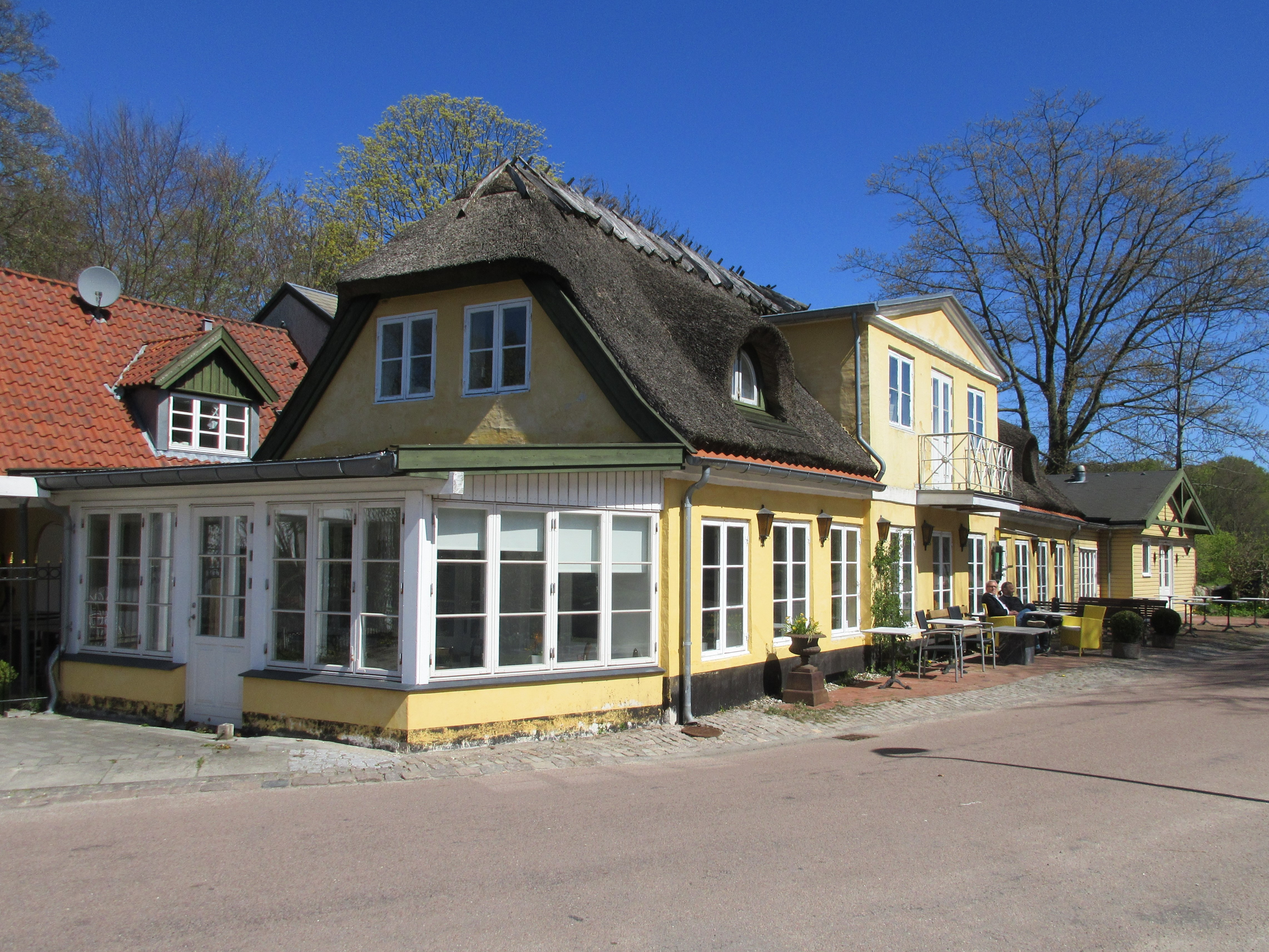 Lottenborg in Lyngbyu, Denmark